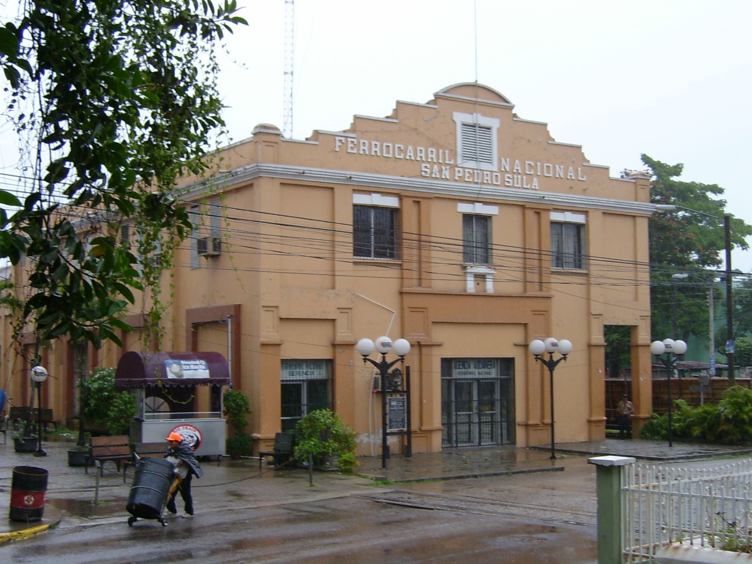 Train station in San Pedro Sula, Honduras. The building serves as head office of FNH - Ferrocarril Nacional de Honduras.